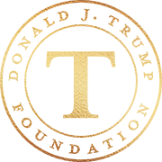 Logo of the Donald J. Trump Foundation